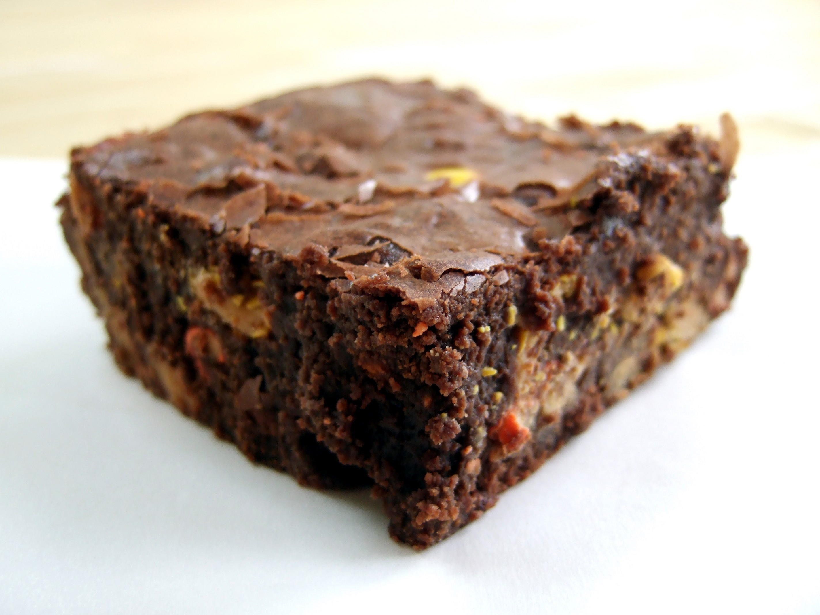 Reese's Pieces brownie, 11 August 2009.